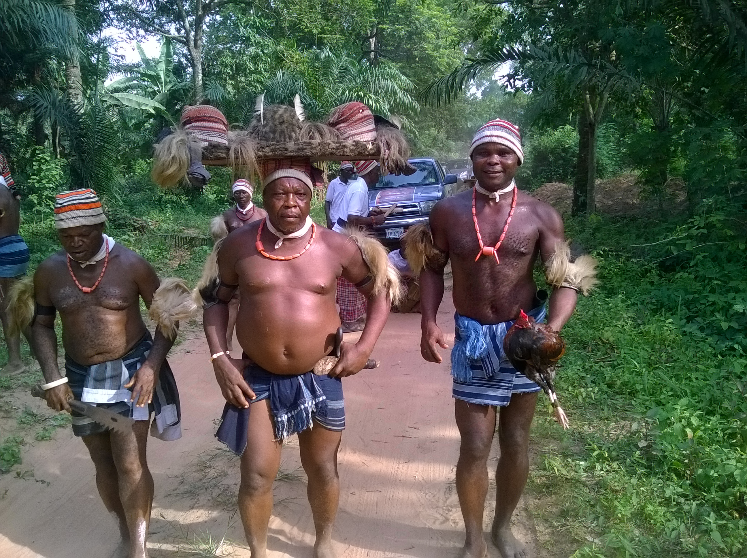 'Ohafia War Dance' Entertainers at a typical African burial ceremony in Enugu, South East Nigeria This is an image of "African people at work" from Nigeria